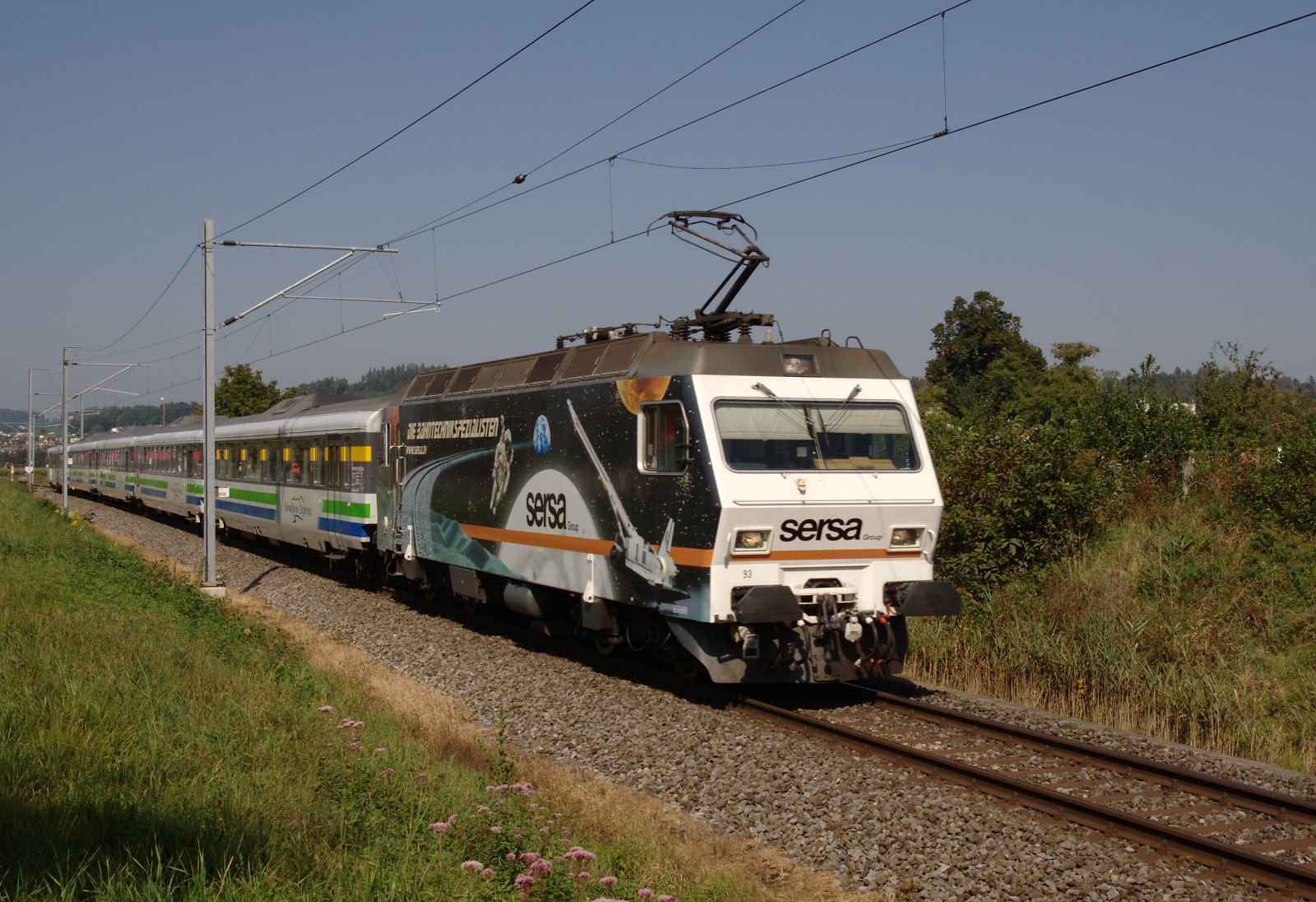 SOB Re 456 pulling the Voralpenexpress between Blumenau and Schmerikon